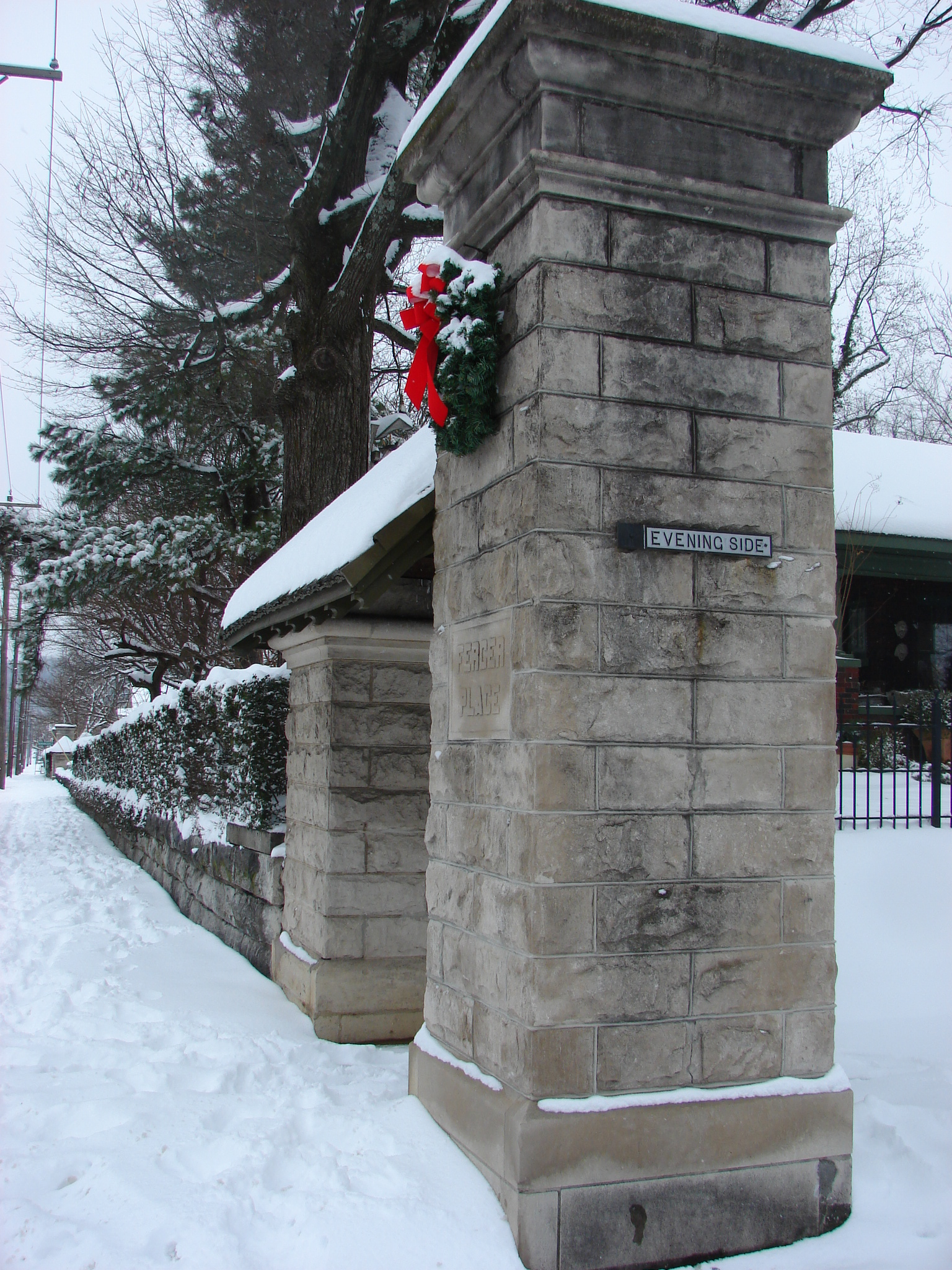 taken by mcgregor